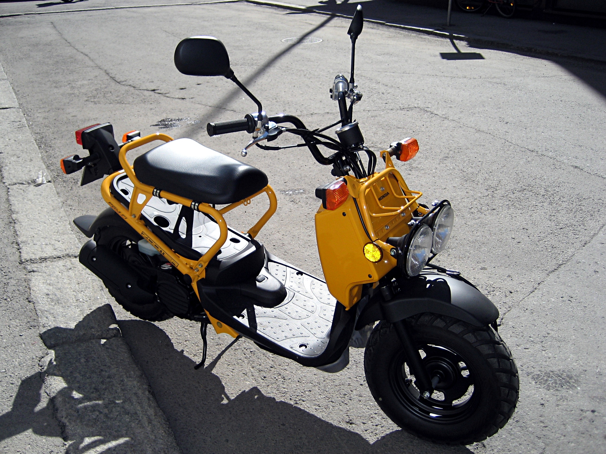 Honda Zoomer NPS50, a 50cc automatic motor scooter. This is the European model with fuel injection and speed restricted to 45 km/h. It claims 4 hp (3 kW). Fuel tank is placed under the footboard. It has drum brakes in the front and rear wheels.